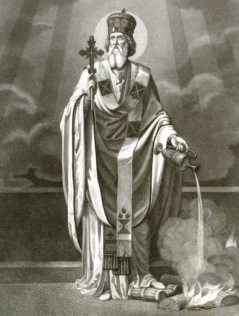 Sabinin. St. Abibos Nekreseli. 1882